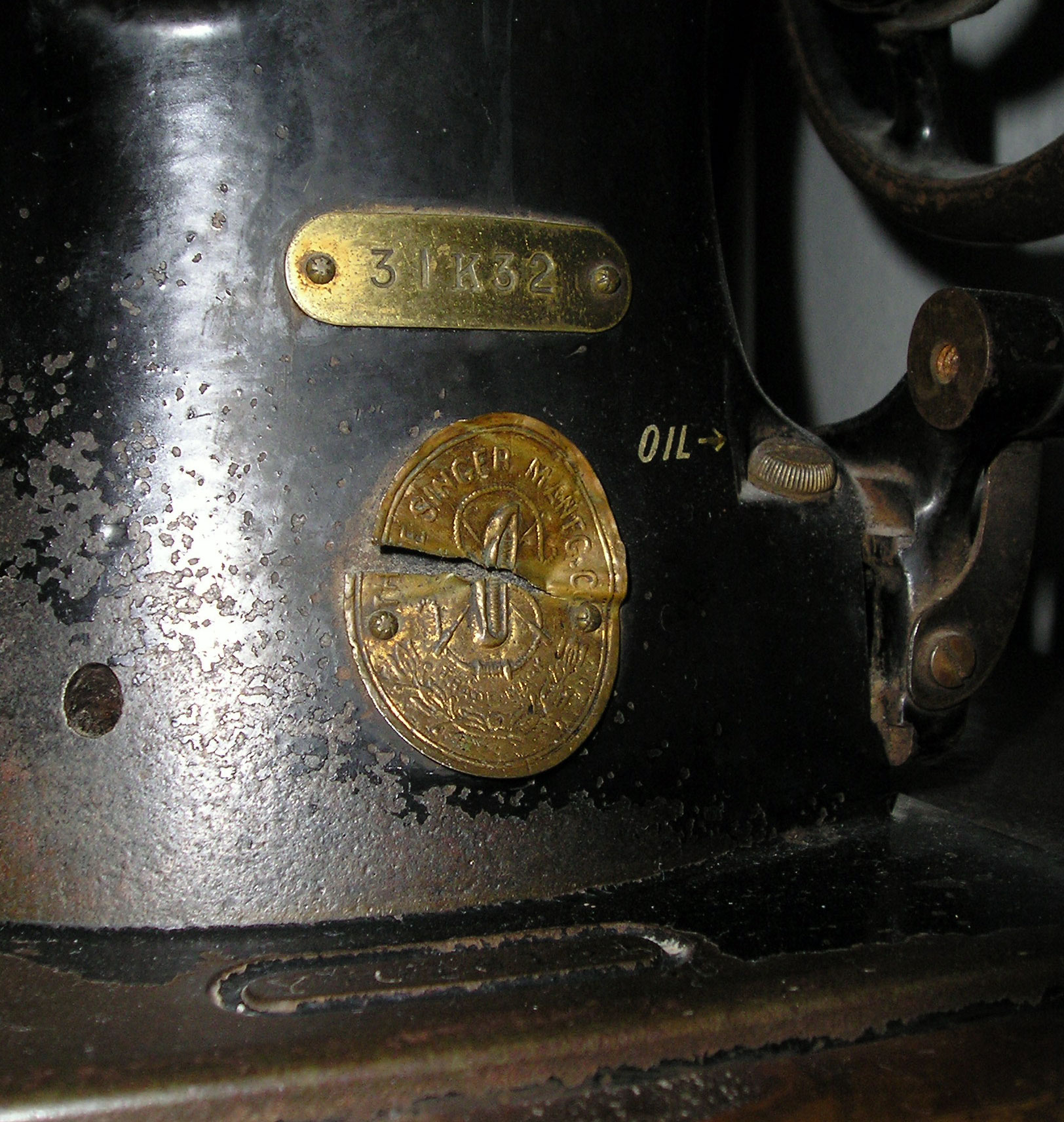 Singer sewing machine - 31K32 (detail 2)